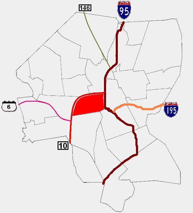 Self-made with MS Paint. Providence neighborhoods with Federal Hill in red.